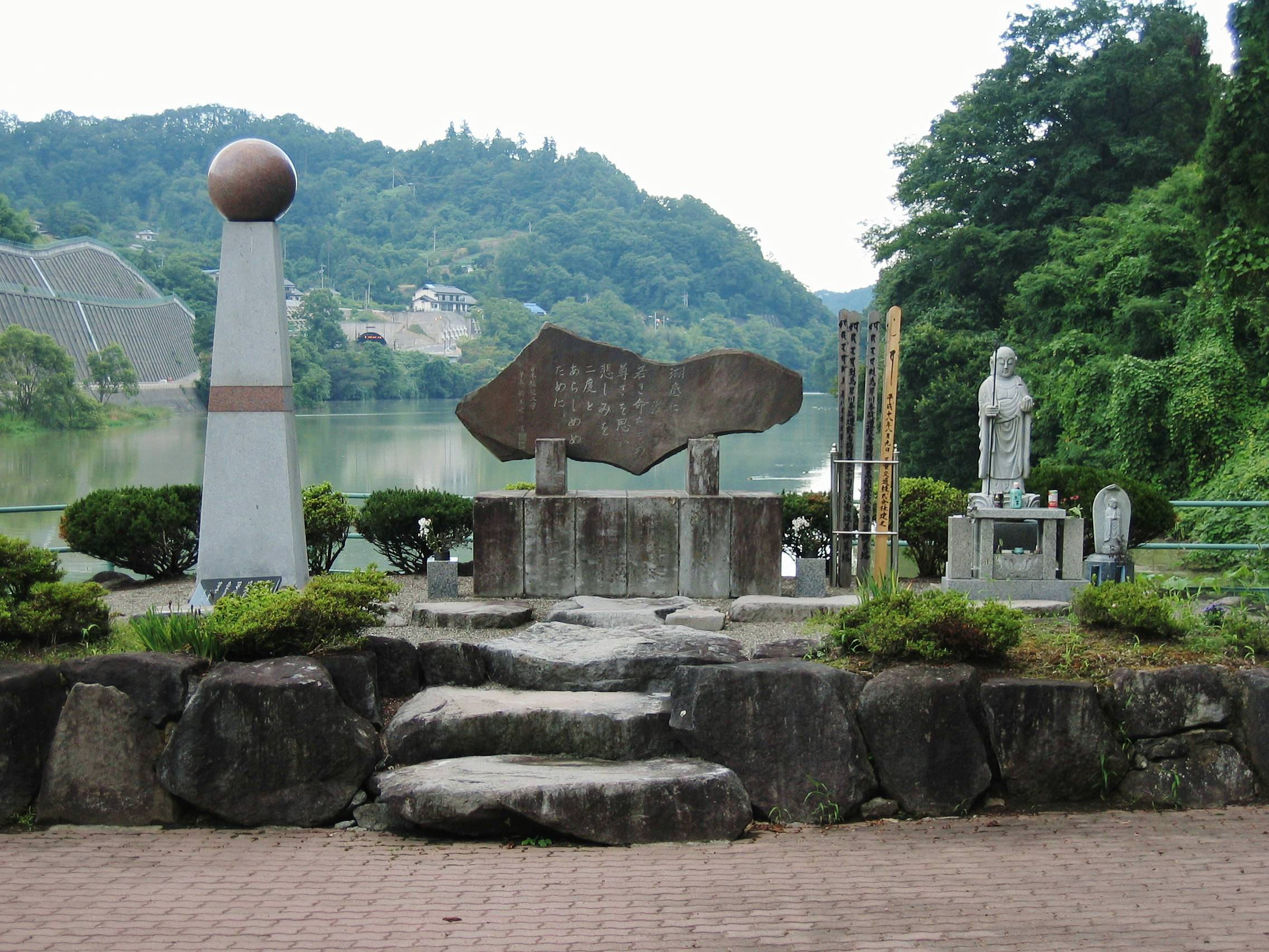 1985 Sai River ski bus accident site.